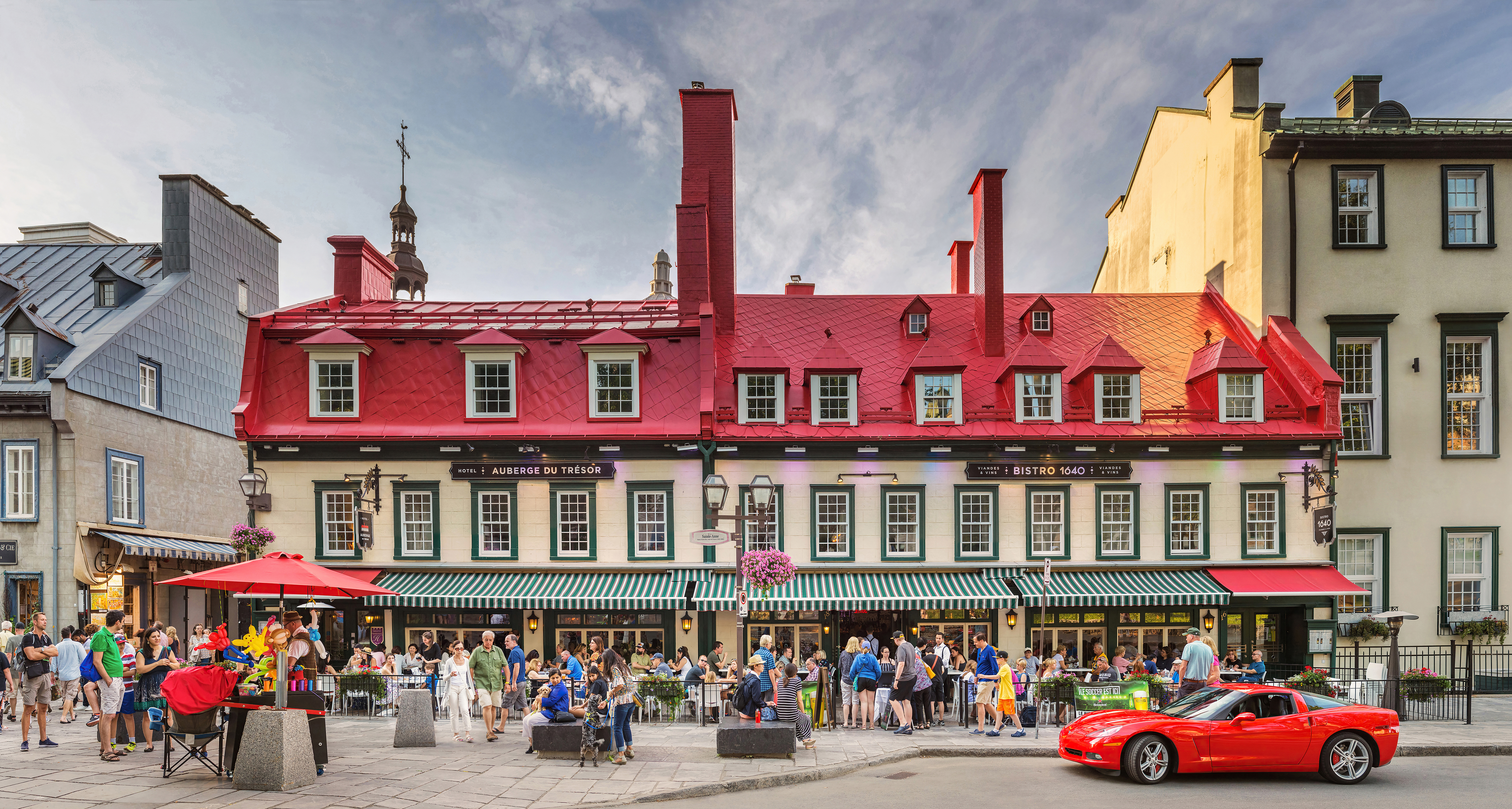 Compagnie des Cents Associés house (Auberge Du Tresor), Quebec city, Canada. As of 1640, a half-timber house on the corner of Sainte-Anne and Du Trésor streets became the only permanent residency of the french regime in Nouvelle-France.